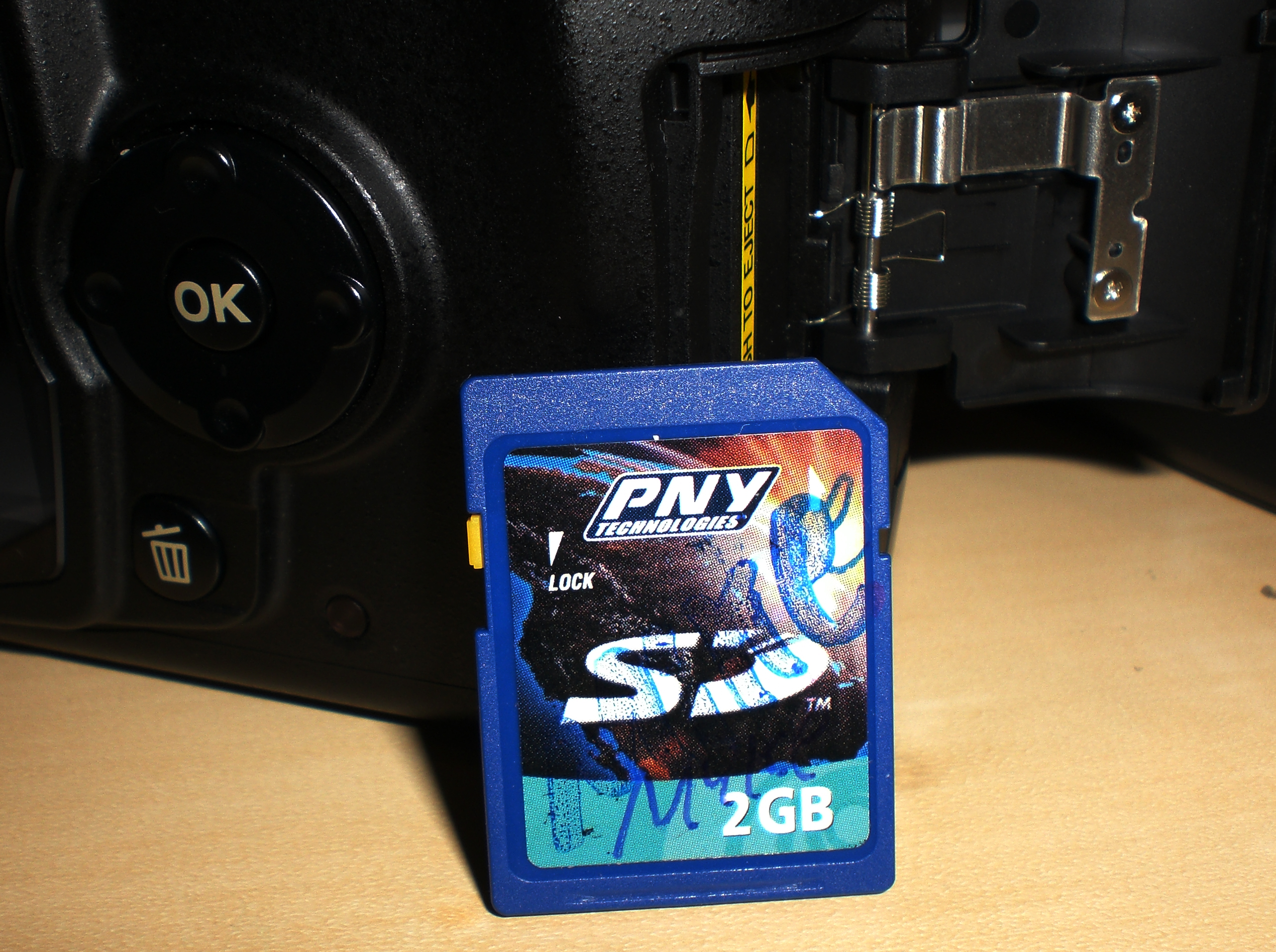 PNY 2GB SD CARD. Photo taken by Myke Waddy, 2007 Alberta Canada. Nikon Camera in background.